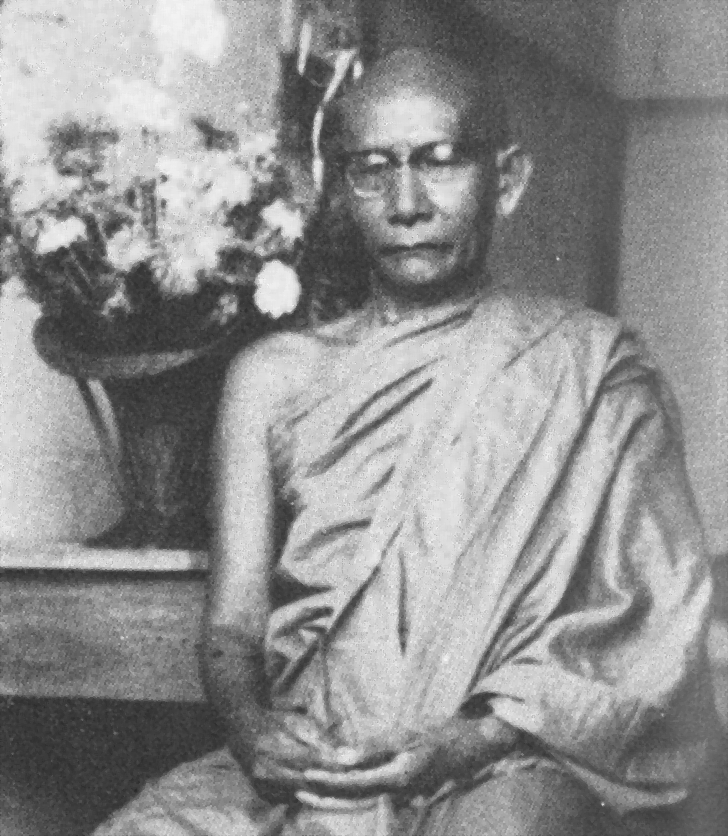 Jhotañano Chuon Nath at the time of his participation in the 6th buddhist council.